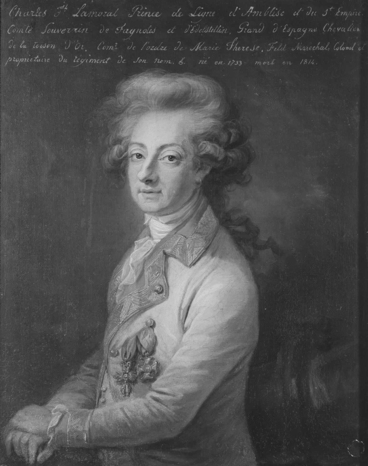 Portrait of Marshal Charles-Joseph (1735-1814) Prince de Ligne